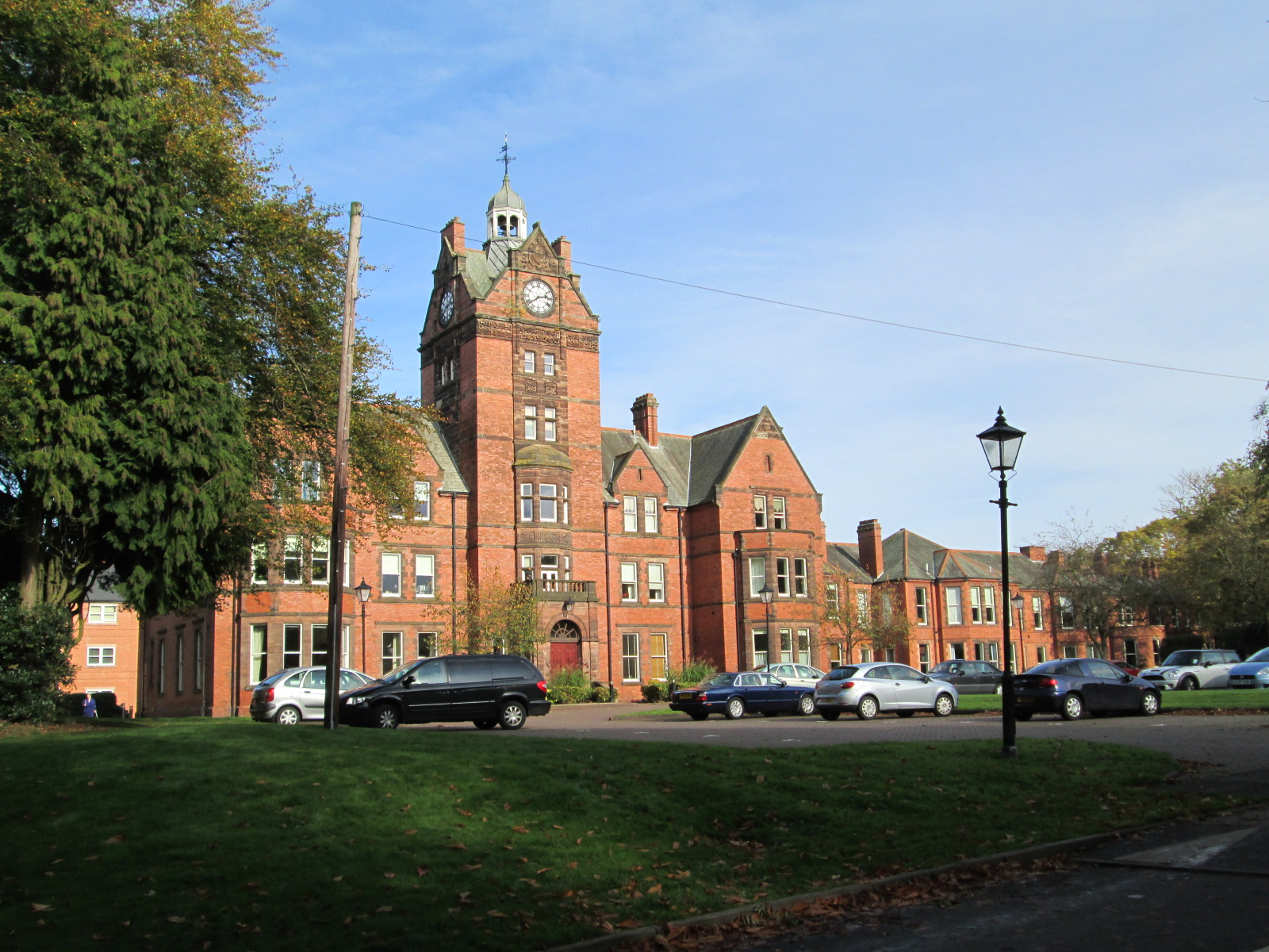 St Edwards Park, Cheddleton The main building of the former St Edwards Hospital. The hospital opened in 1899 as Cheddleton County Mental Asylum and closed in 2002. The hospital buildings have been converted into flats, and new houses built in the grounds, forming a housing estate called St Edwards Park.